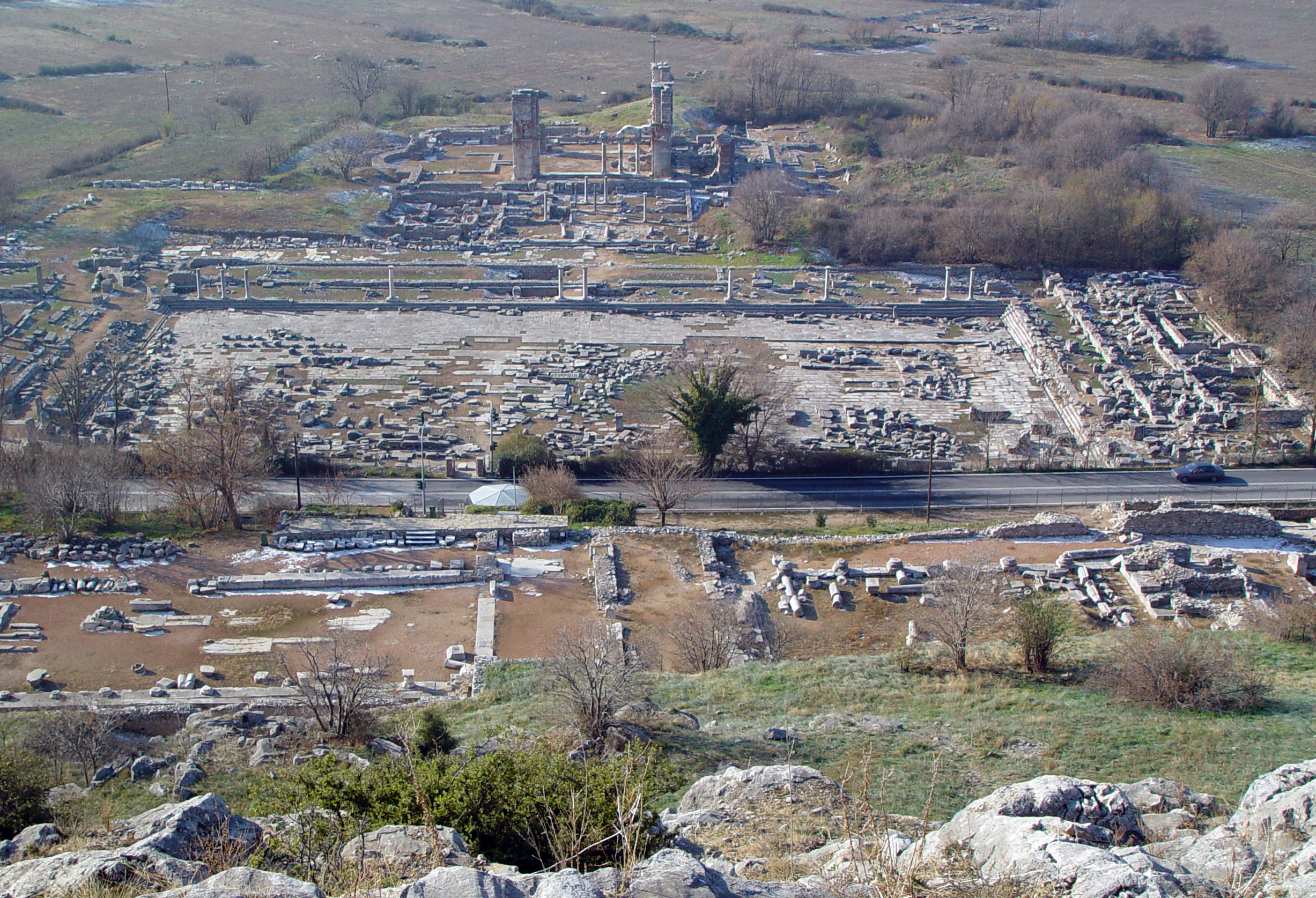 Philippi's forum and basilica B seen from the acropolis. Photography taken on 12/11/2000 by Marsyas